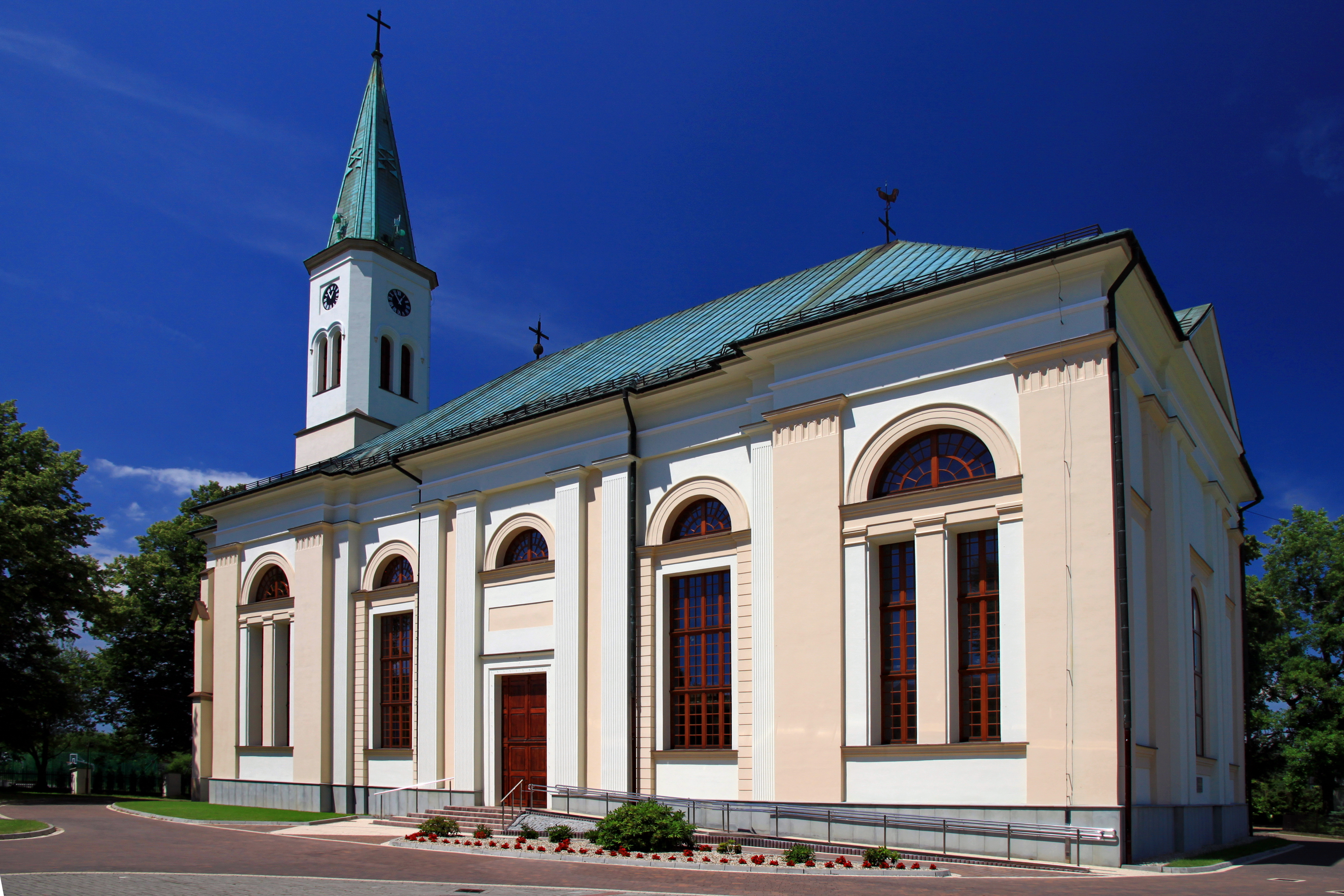 Ustroń, lutheran church of the Apostle James, build in 1838